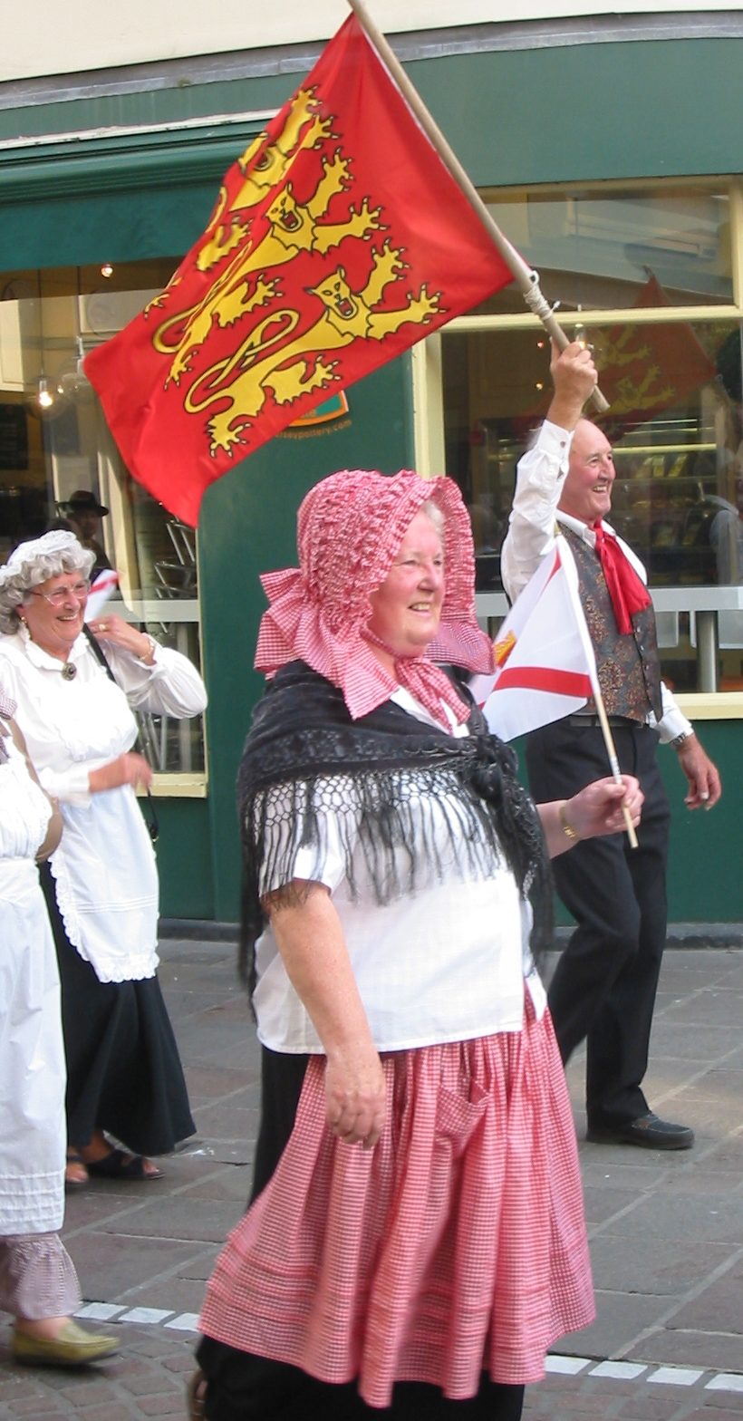 Traditional Jersey folk costume worn during parade in Saint Helier, Jersey, as part of La Fête Nouormande 2005 Photo taken by Man vyi with Canon PowerShot A40 on 27/5/2005